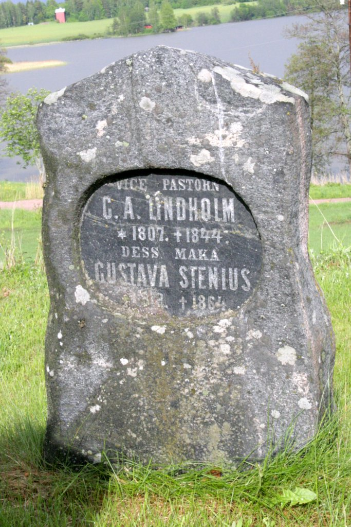 Vice minister Carl Lindholm's thomb stone After the losses of the Russo-Swedish War, 1741-1743, the bishop of Porvoo Johan Nylander had lost some of the parishes because of the peace treauty of Turku, which states territorial gains to Russia, as Sweden started the war. To compensate the losses the bishop insested, that the parish of Myrskyla should become his annex parish, so that he could benefit the minister's pay, but also take care of the secular administative obligations. The representative of the lady of the manor squire of Myrskyla opposed the idea by claiming that the manor squire has the patronate right to name the minister, so the bishop could not have the parish of Myrskyla as his annex parish. The documents did not confirm the claim and the bishops of Porvoo became the ministers of the parish of Myrskylä for more than a century from 1747 to 1865, when the system of the annex parishes was abolished and clerical and secular powers were separated on local governments. Carl Lindholm served as a vicary minister of the parish of Myrskyla for the bishops Johan Molander and Gustav Ottelin in the parish.